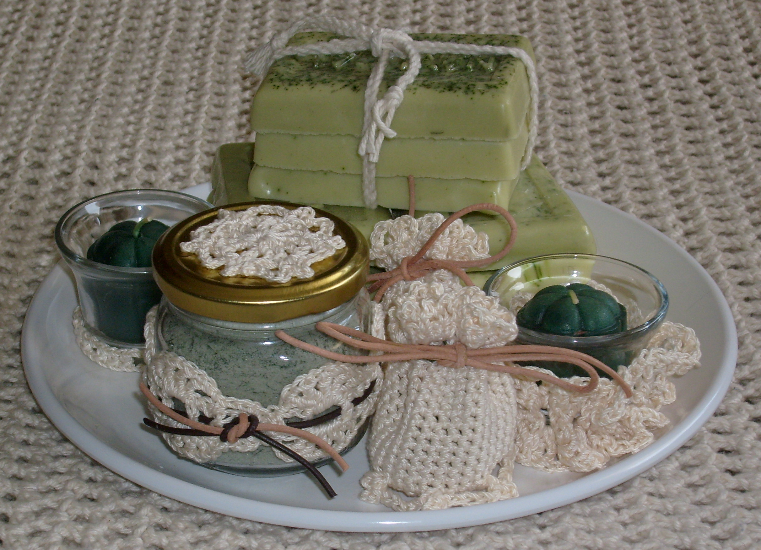 A selection of handmade Mother's Day gifts. Bath salts (sea salt and lavender) in a glass jar decorated with crochet lace and leather cord. 2 sachet bags of crochet lace and leather with lavender and lemon balm, 2 tea lights in glass. One with crochet lace at the bottom edge, the other with a hair scrunchy made from crochet lace and elastic cord. 9 herbal soaps made from glycerin, lemon balm, sea salt, and mint. Tied with braided cotton cord. All crochet is size 3 ecru mercerized cotton worked on a 3.5mm hook.